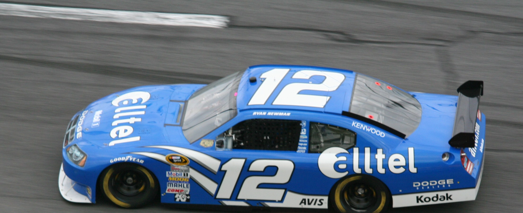 Ryan Newmans with the #12 at 2008s Daytona 500.